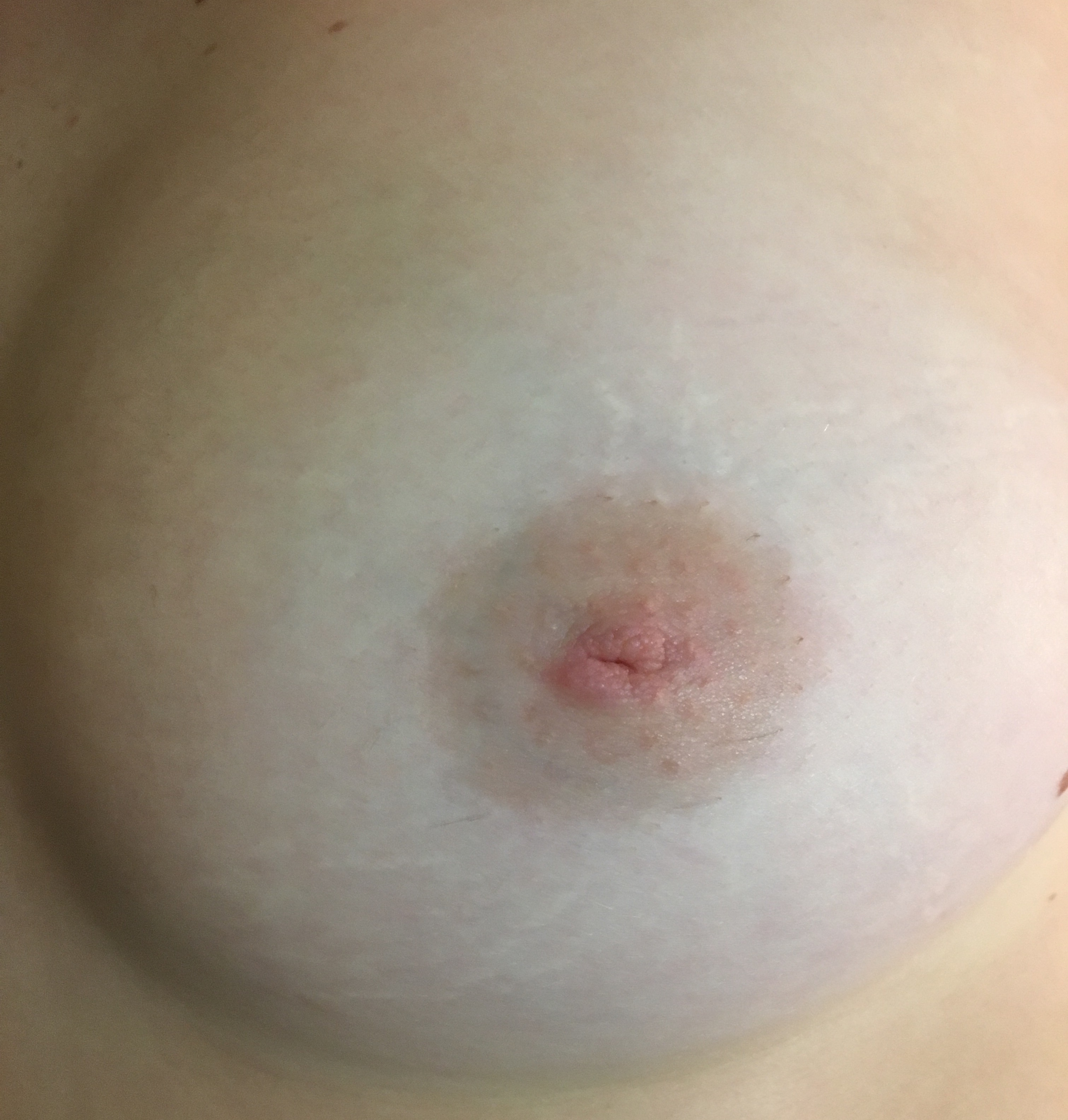 Breast with an inverted nipple